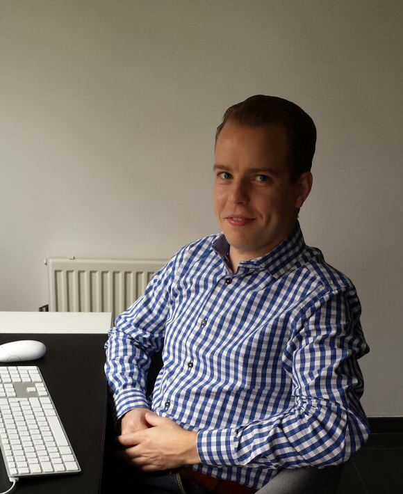 Photo of Michael Boelen in office